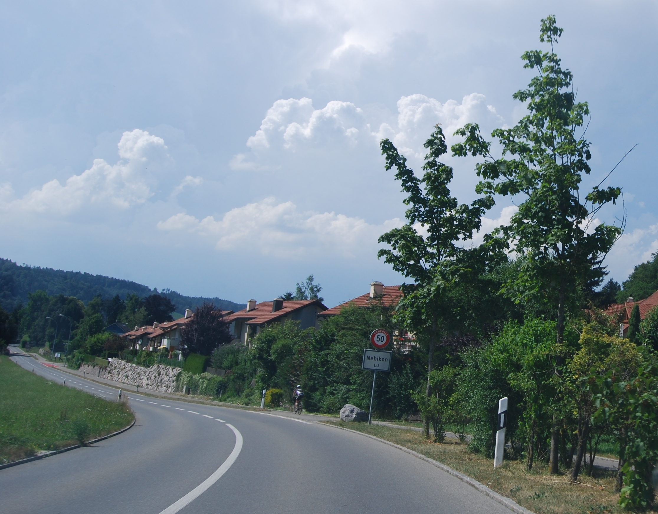 Village entry of Nebikon, canton of Luzern, Switzerland